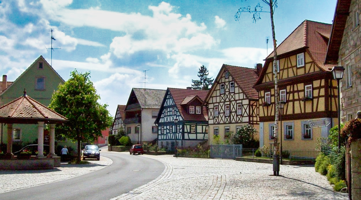 The old village centre Neubrunn-Kirchlauter